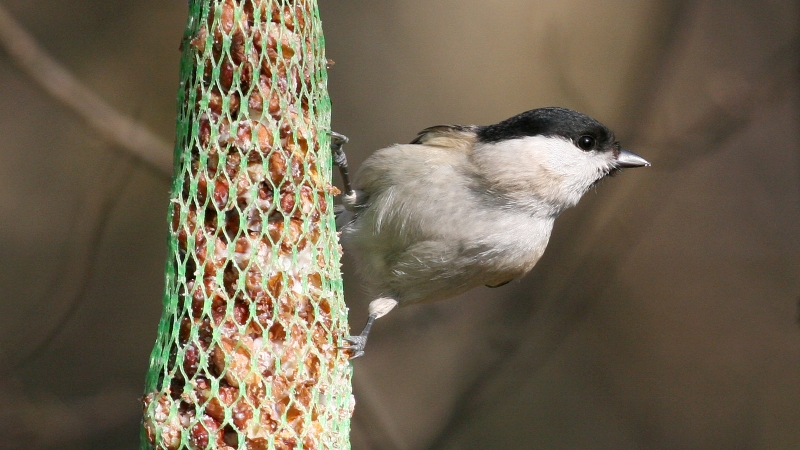 Marsh Tit (Poecile palustris)